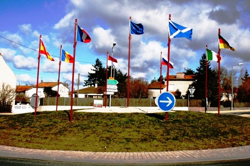 Français